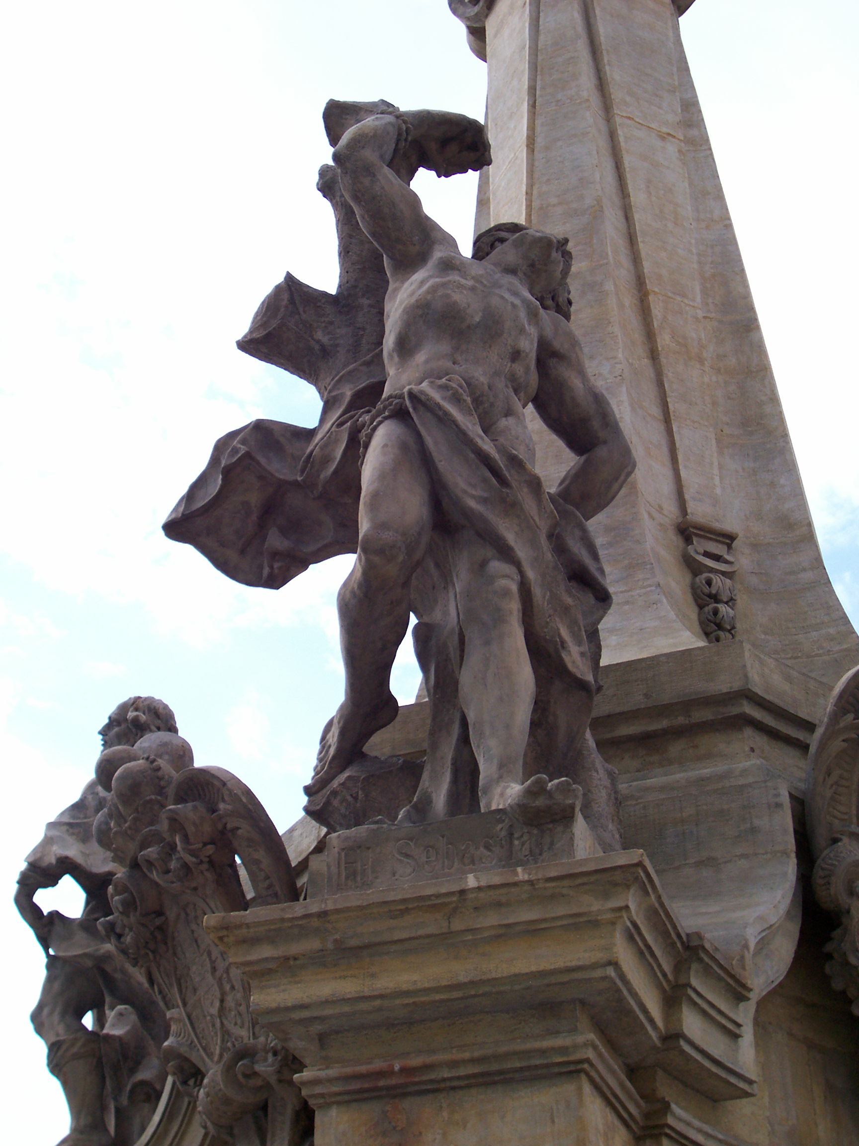 Šternberk: Marian Colum - St. Sebastian, built 1719